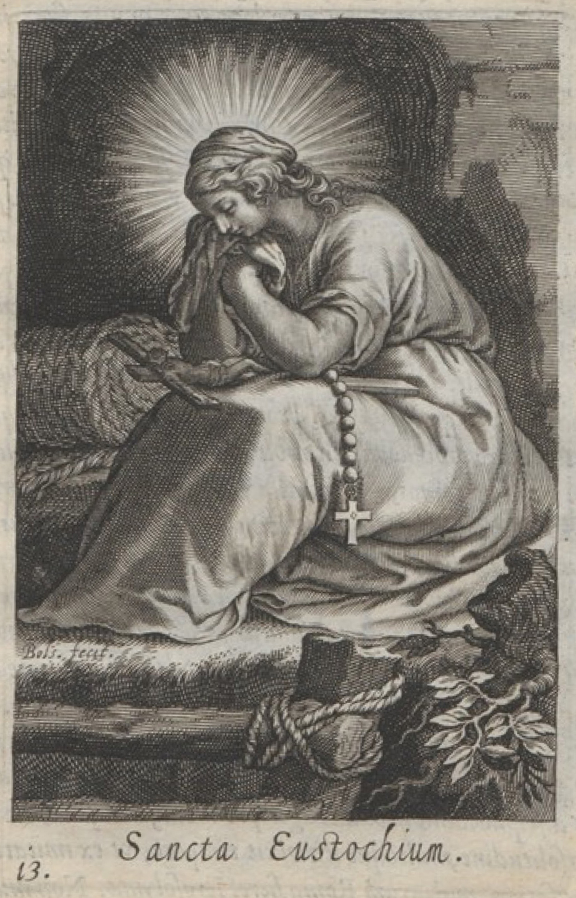 Plate from the 1619 book Sylva anachoretica Aegypti et Palaestinae. Plate design by Abraham Bloemaert (1564/66-1651); engraving by Boetius à Bolswert (ca. 1580-1633)